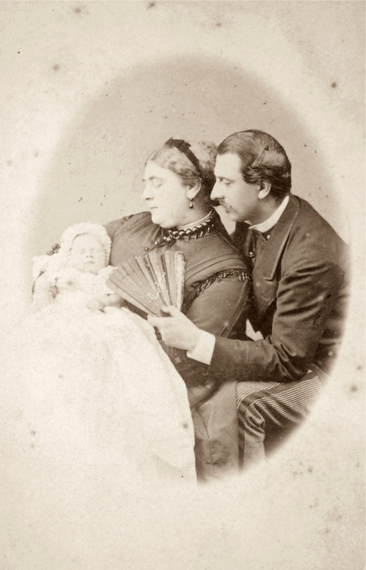 Franz, Duke of Teck. and Princess Mary Adelaide, Duchess of Teck, with Princess Victoria Mary of Teck (later Queen Mary of the United Kingdom)